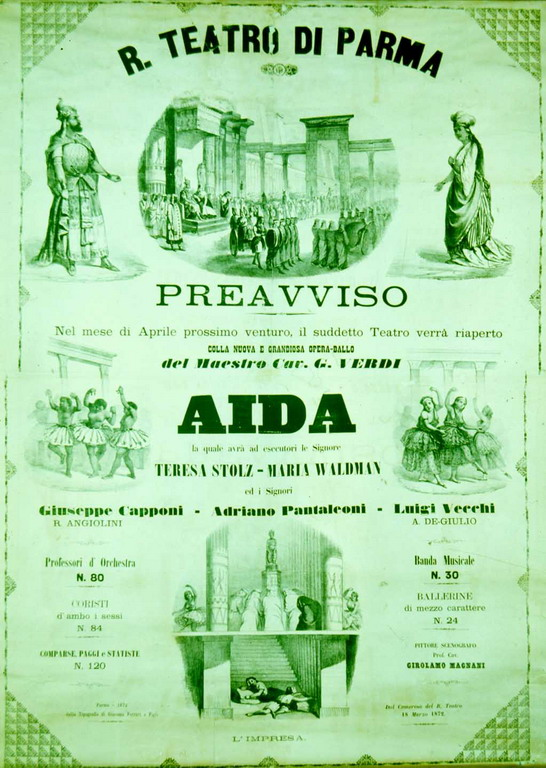 Poster of Aida in Teatro di Parma, 1872